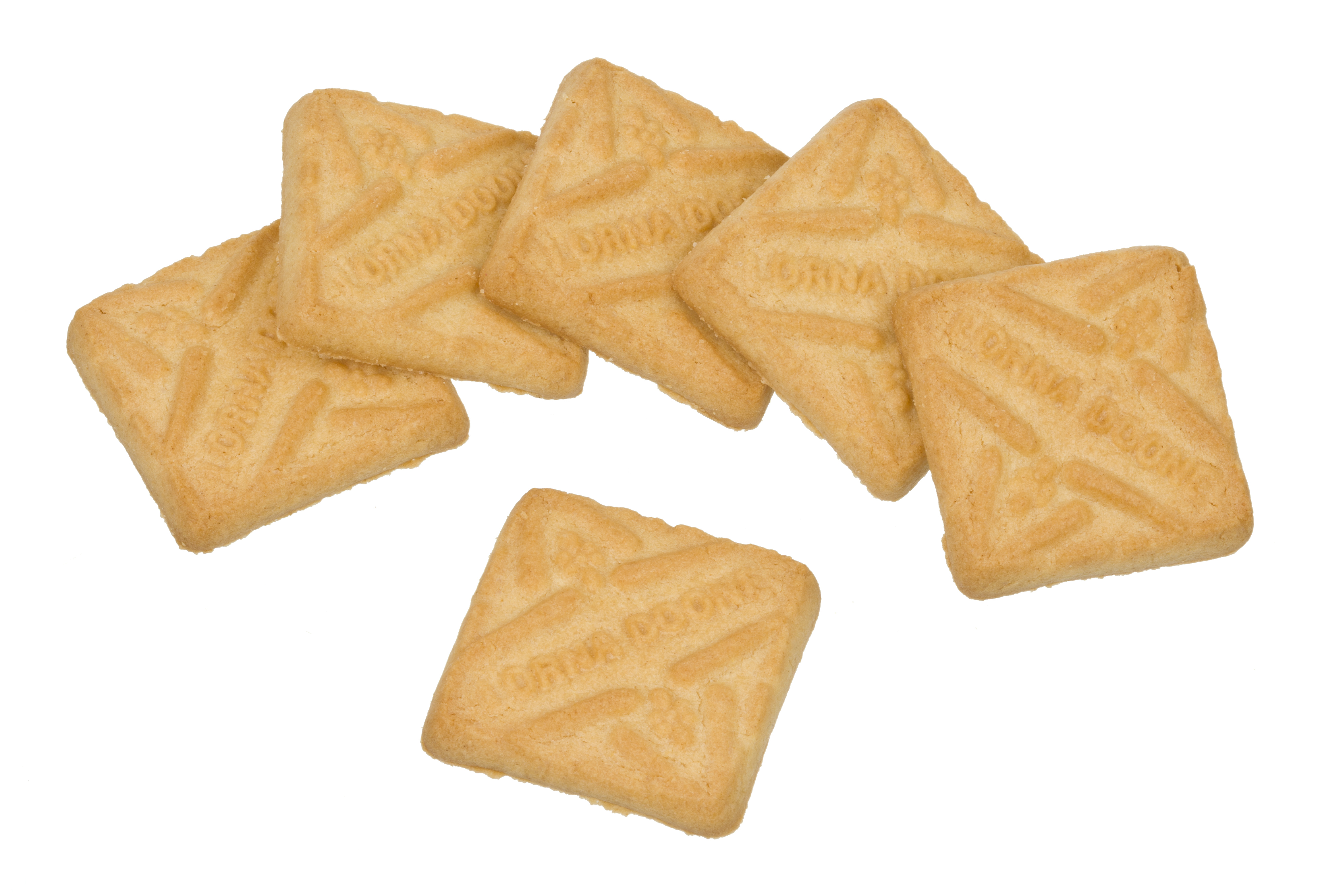 Lorna Doone shortbread cookies, an American product produced by Nabisco.